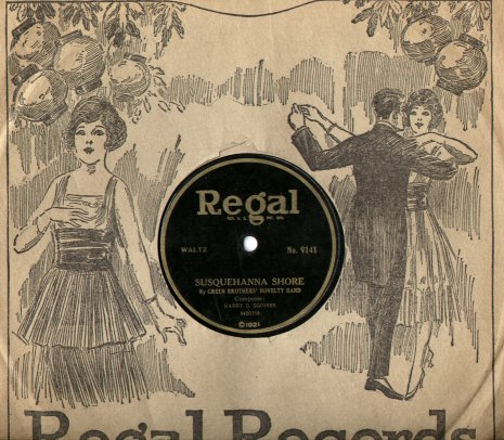 A record sleeve of the first Regal records issue